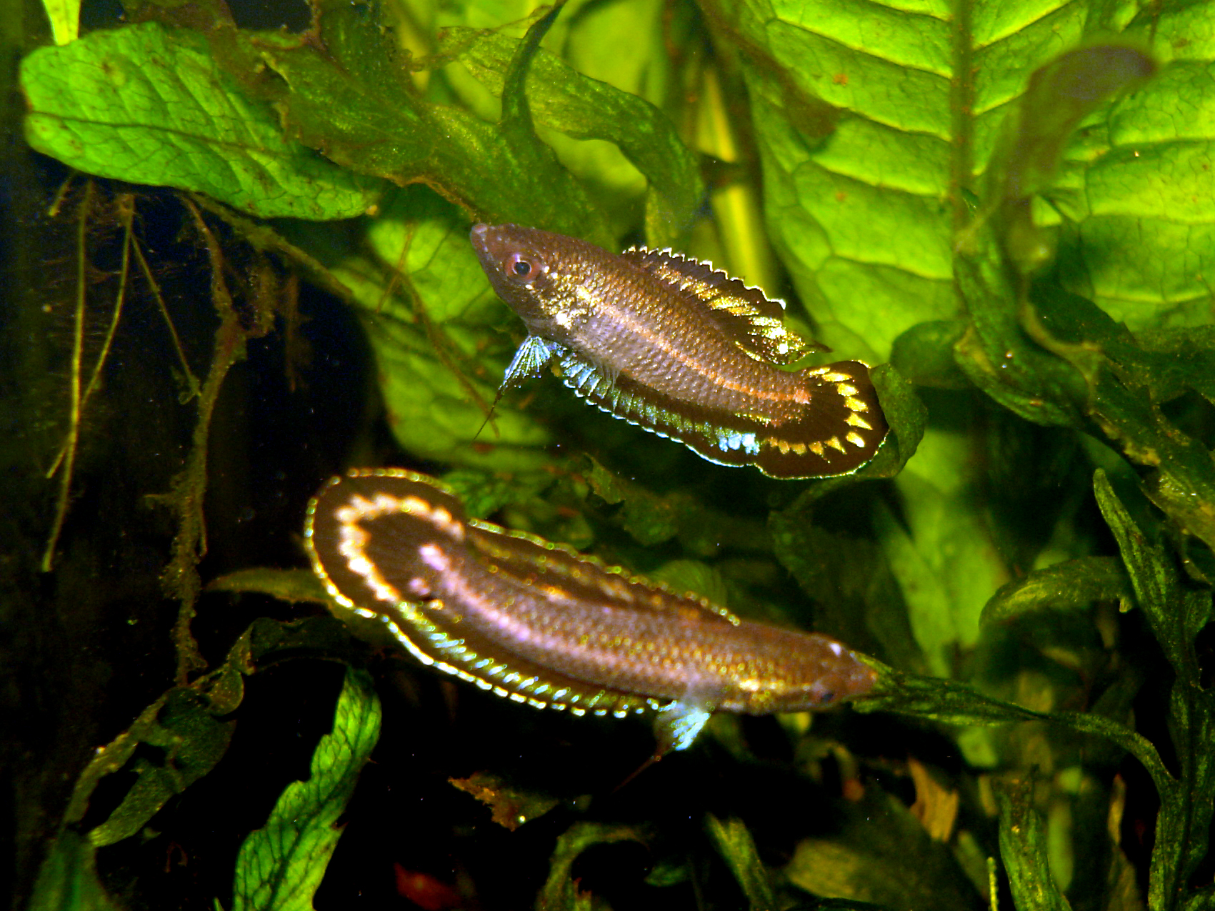 Male Parosphromenus harveyi in aggressive colouring - comment fighting